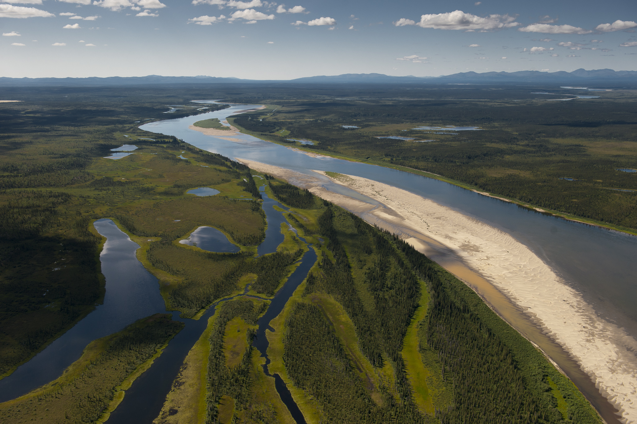 Kobuk River (NPS Photo by Neal Herbert)